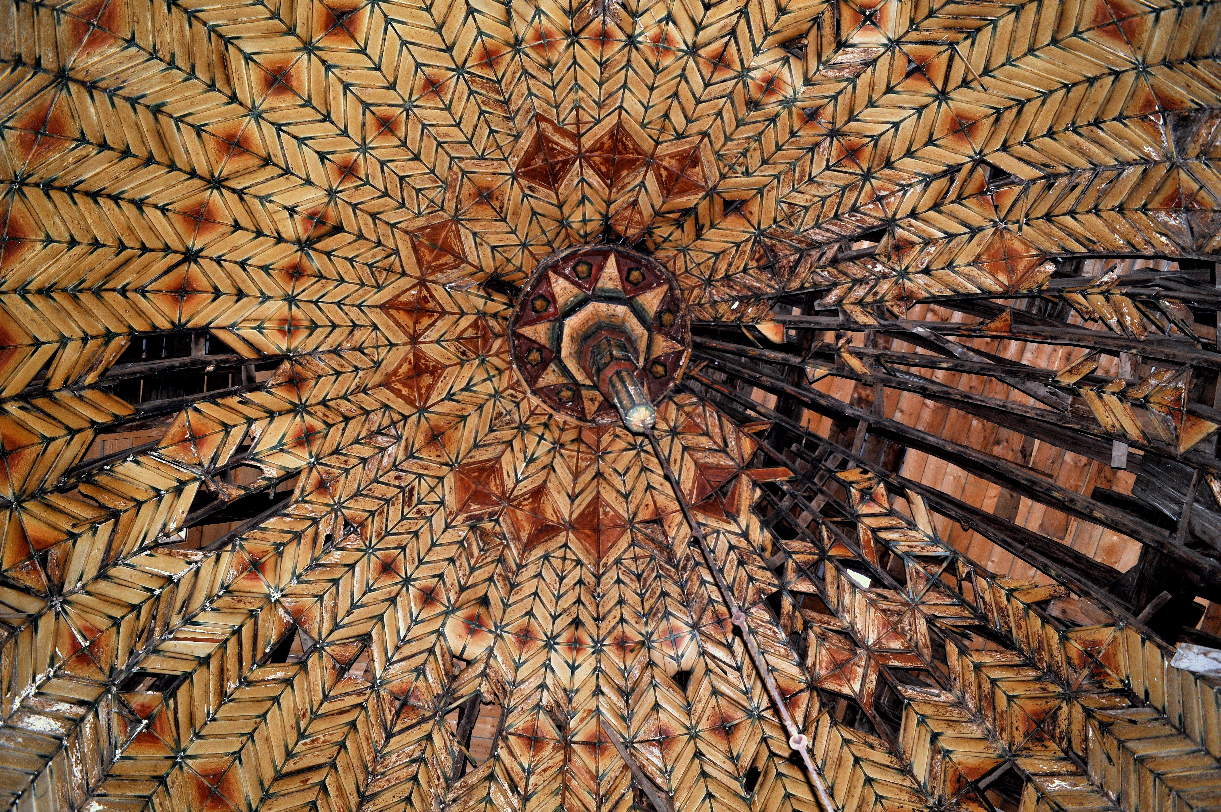 Bayezid (Mehmed I) Mosque (inside - under renovation), Didymoteicho, Evros, Greece.